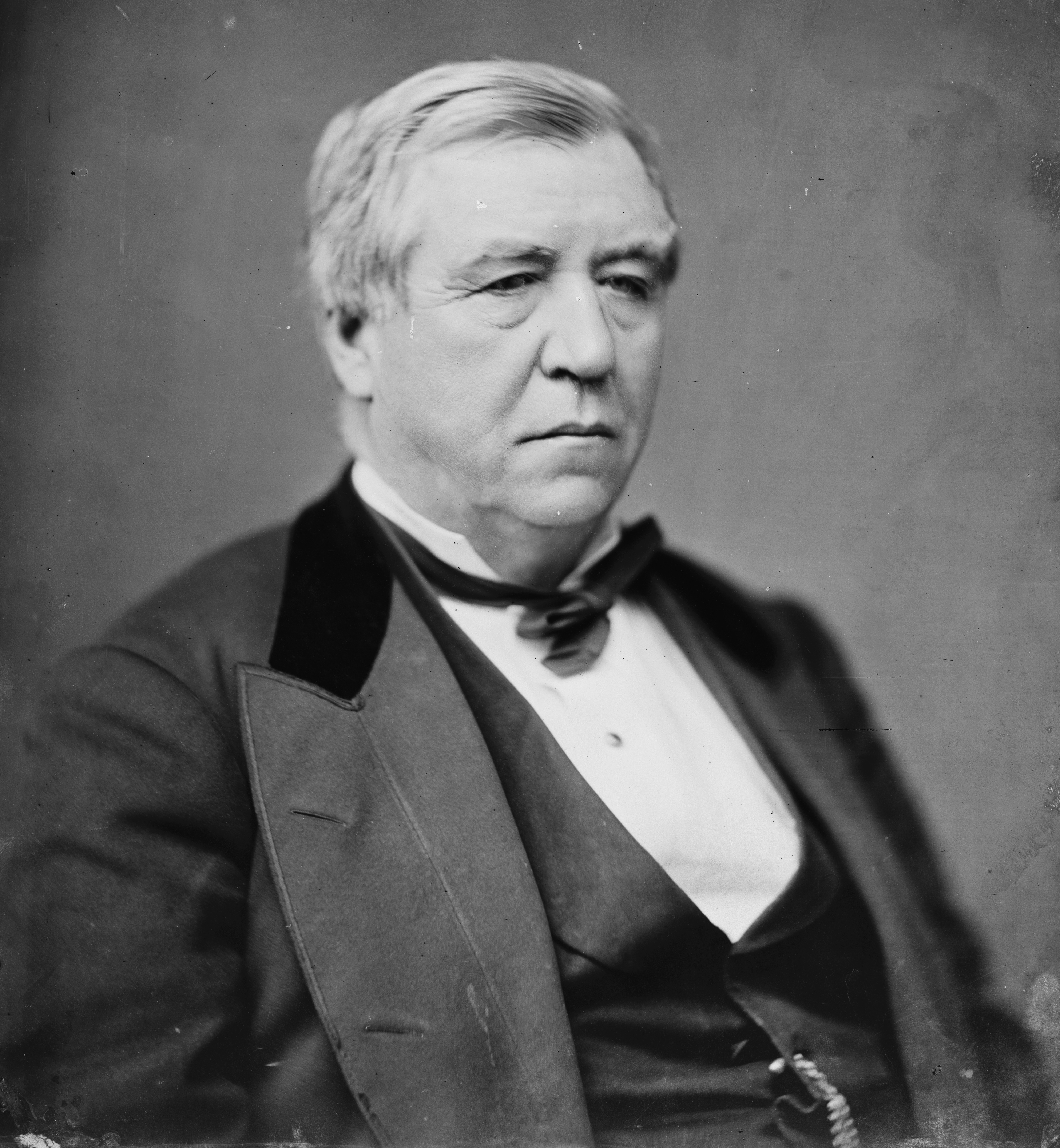 John Stevenson, governeur of kentucky